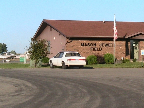 My own photograph Jewett Field Mason, Michigan - terminal building from parking lot - taken September 2009